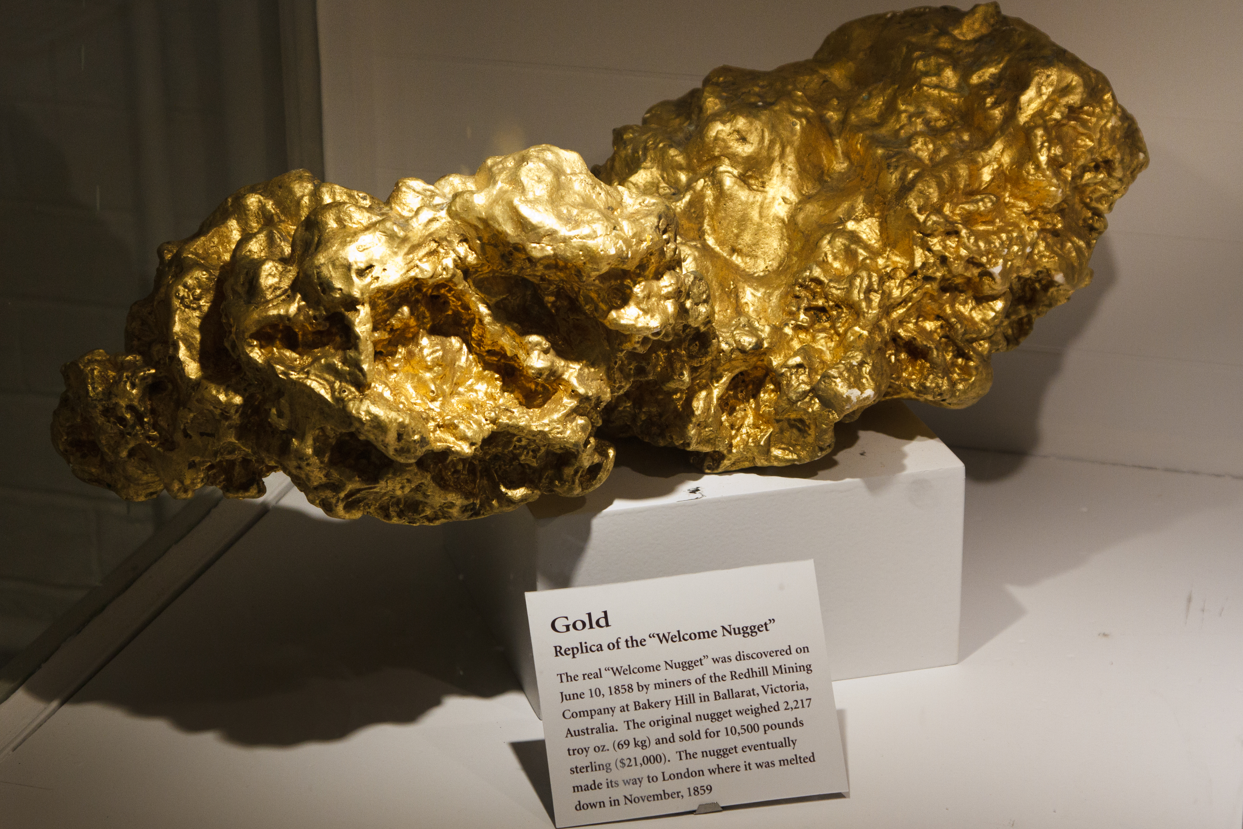 A Replica of the "Welcome Nugget" in the Mineral Hall, Harvard Museum of Natural History, Cambridge MA